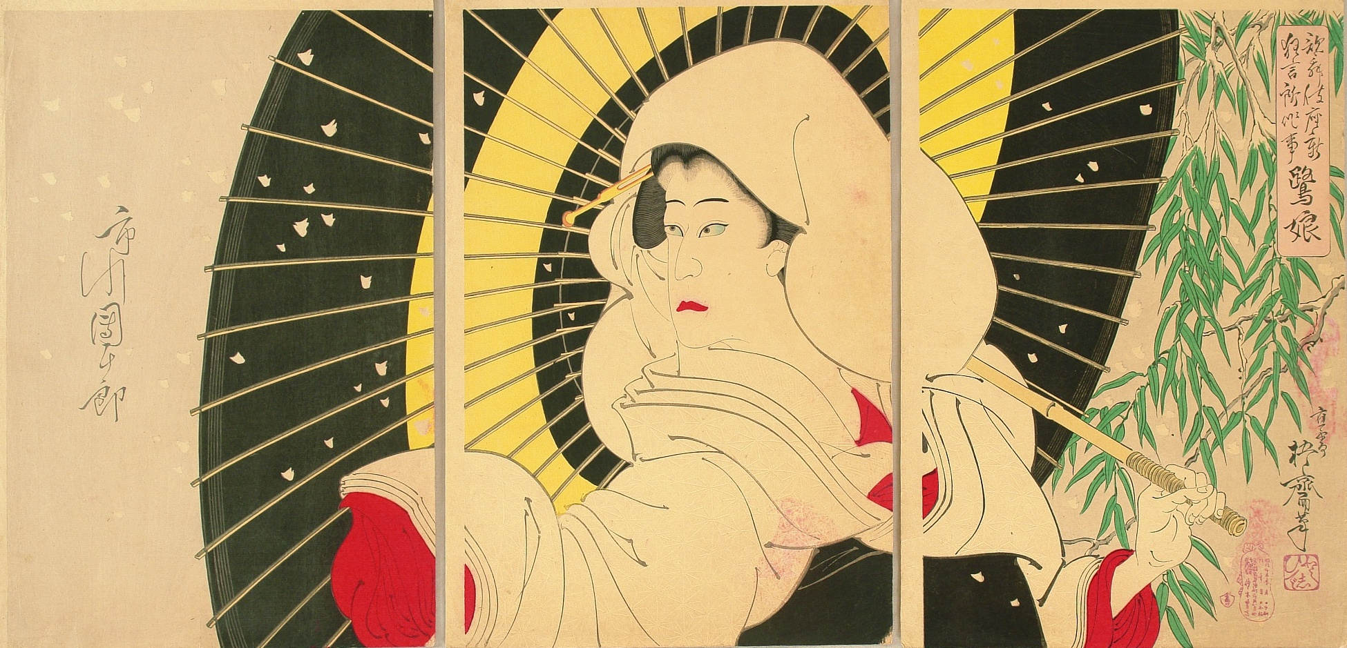 woodblock print by Utagawa Kunisada III, triptych, the actor Ichikawa Danjūrō IX is in the role of 'Sagi Musume'